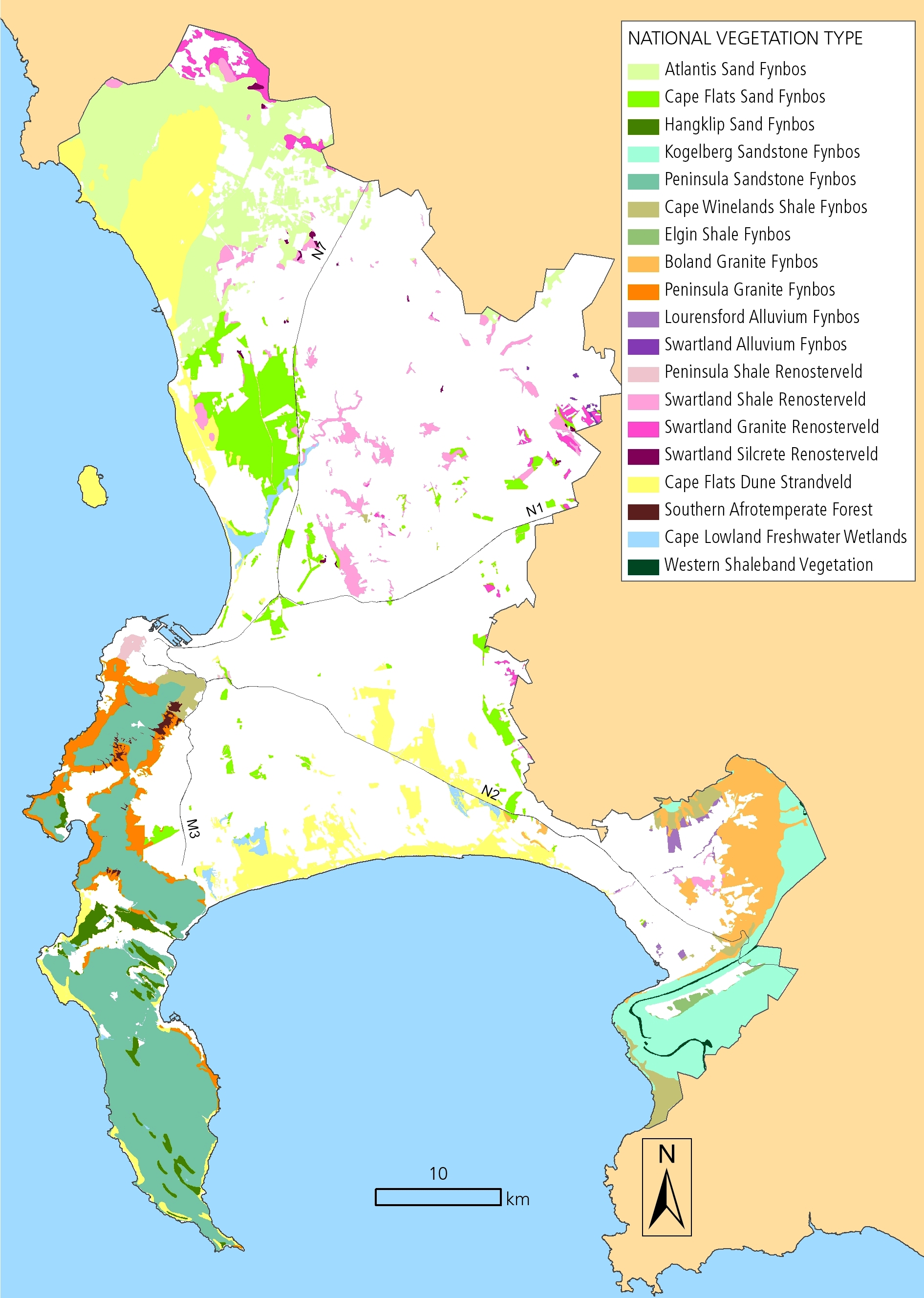 Map of the city of Cape Town showing its surviving vegetation types. Second of two images showing CTs natural vegetation types before and after the growth of the city. Generated, drawn and coloured using common public domain data. Checked to be in accordance with free public information published by the city of Cape Town's Environmental Resource Management Department.